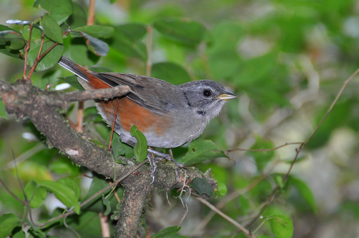 A Red-rumped Warbling-finch in Rio Grande do Sul, Brazil. If this species is split, then this bird can be called Grey-throated Warbling-finch.